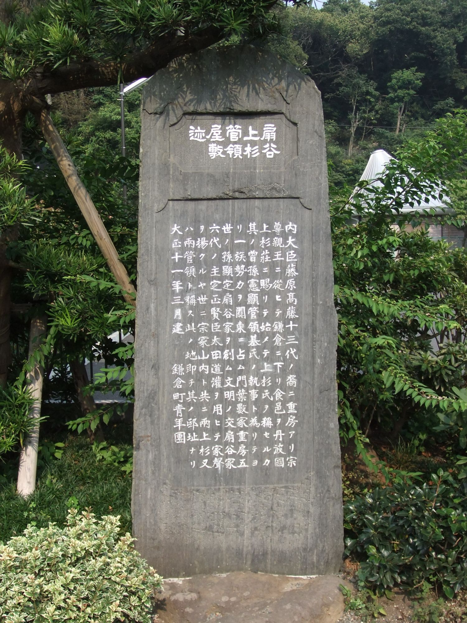 Stele of Ōgigayatsu Uesugi's residence site in Kamakura, Kanagawa.